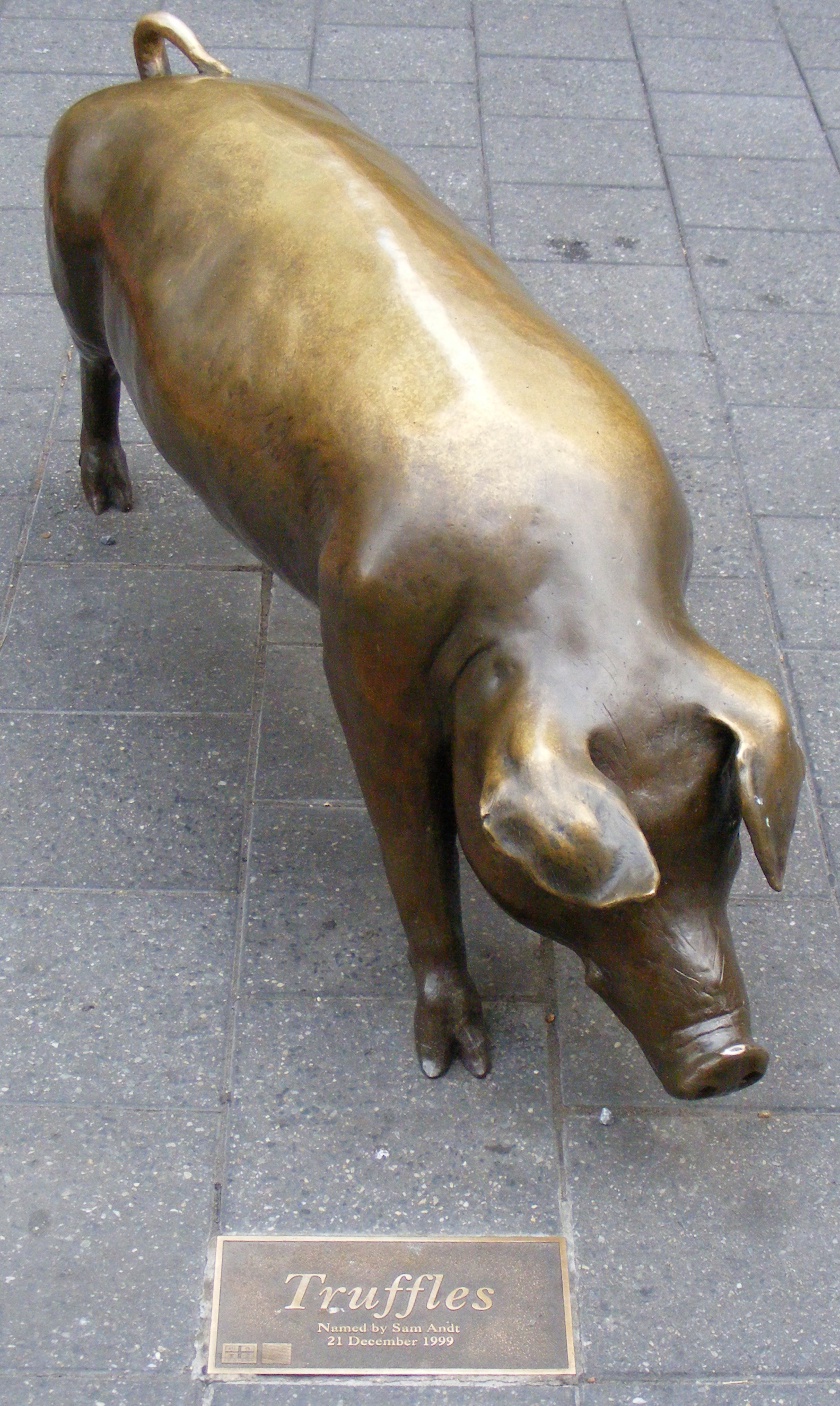 "Truffles" the bronze pig statue - Rundle Mall, Adelaide, South Australia